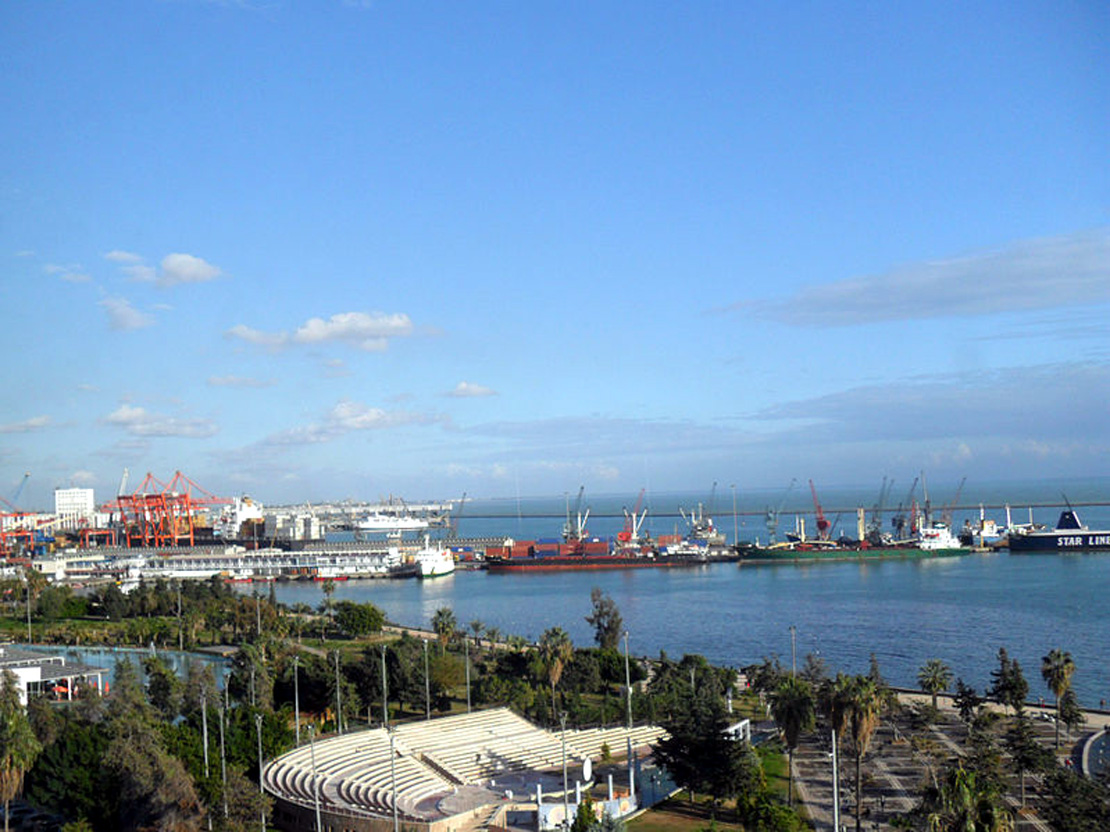 Mersin harbor from the West with Atatürk park in foreground